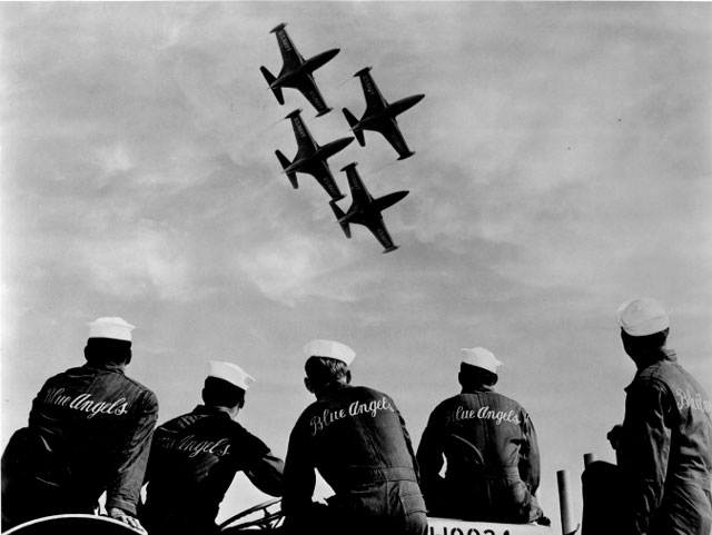 The Blue Angels, under the command of Lieutenant Commander R.M. "Butch" Voris in 1952, fly in their signature "diamond" formation.